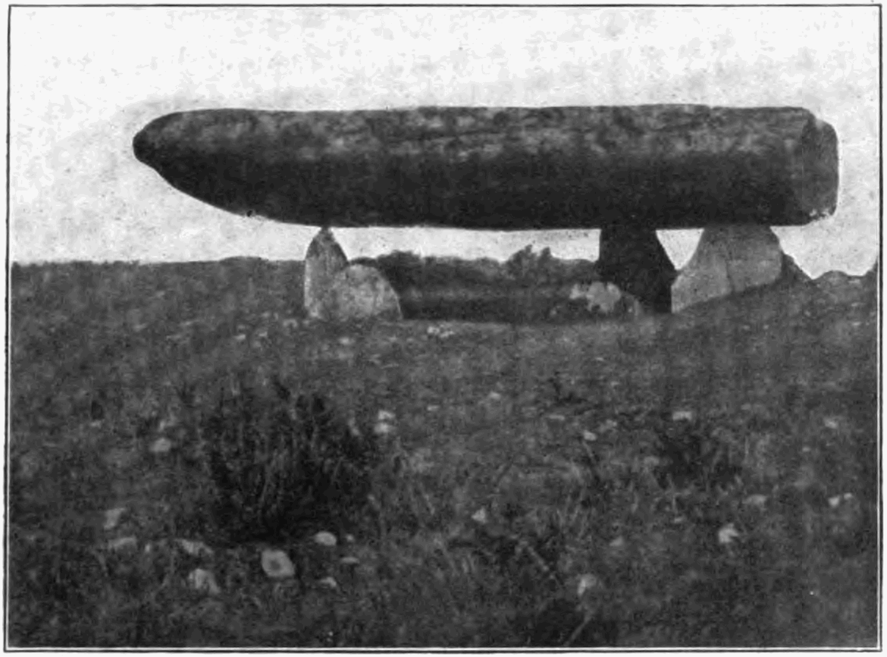 Dolmen des Marchands Locmariaquer